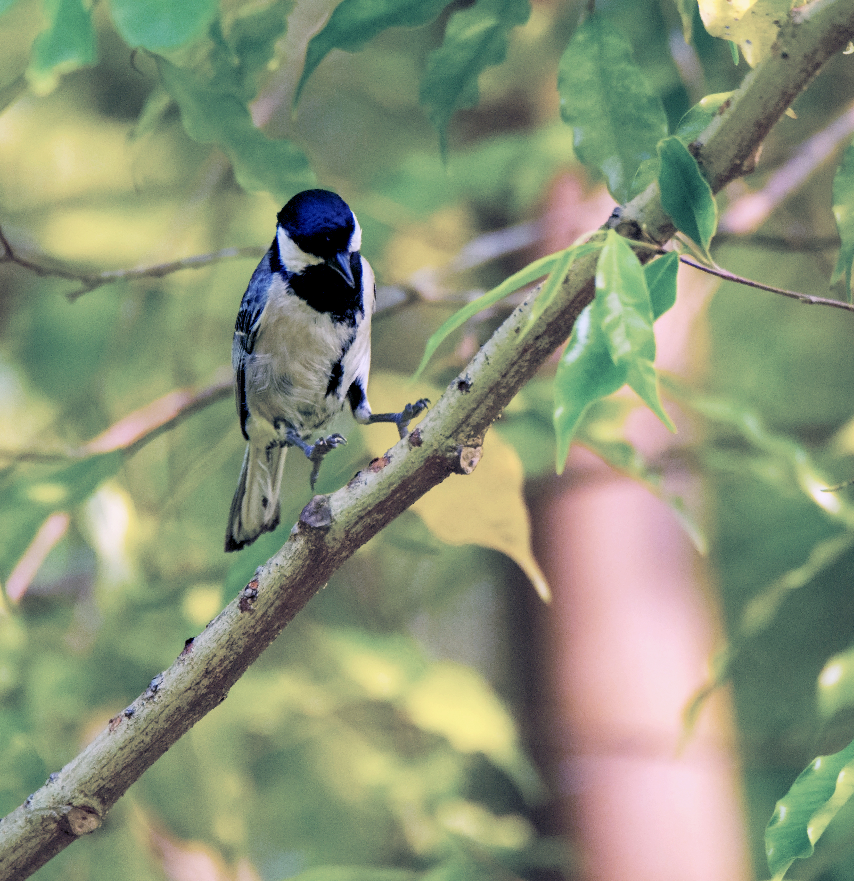 Cinereous Tit Parus cinereus, Kadigarh National Park, Bangladesh.